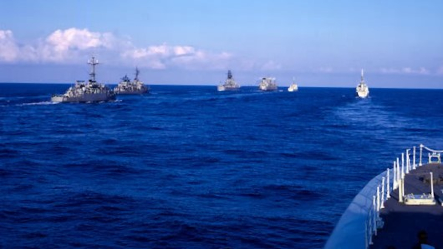 HMCS St. Laurent 3rd in line to refuel on the U.S. tanker's starboard side. The St. Laurent's bow is visible at lower right. Note the unusual "round-down" at the top of the ship's hull, indicative of all Cadillac DDEs and DDHs (Destroyer Escorts and Destroyer - Helicopter). "The design of these ships was distinctly Canadian and unique. Developed to operate in our harsh conditions, the entire deck edges of the vessels were rounded to prevent the formation of ice. The design was also to help prevent us in case of nuclear fallout, or biological or chemical attack: the ships were fitted with an external sprinkler system" to wash away contaminants, and the rounded design made it easier to decontaminate the entire vessel."[1] The two Cadillac DDEs ahead of the St. Laurent are unknown. Just leaving the tanker's port side is the heavy cruiser USS Newport News (the two smaller U.S. vessels are unknown). This was north of Puerto Rico during Springboard 1967, if I recall correctly.